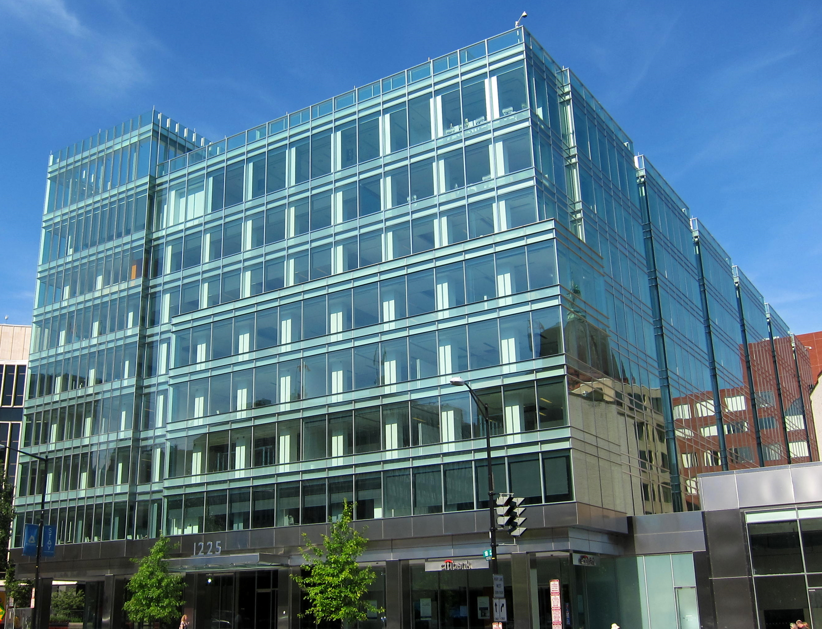 1225 Connecticut Avenue NW is an office building in the Dupont Circle neighborhood of Washington, D.C. Built in 1968, with a $32 million renovation in 2009 by Brookfield Properties and RTKL Associates, 1225 Connecticut Avenue is the "second redeveloped building in the United States and the first within the major business districts of the East Coast to achieve LEED Platinum status." Tenants include Citibank and the World Bank.